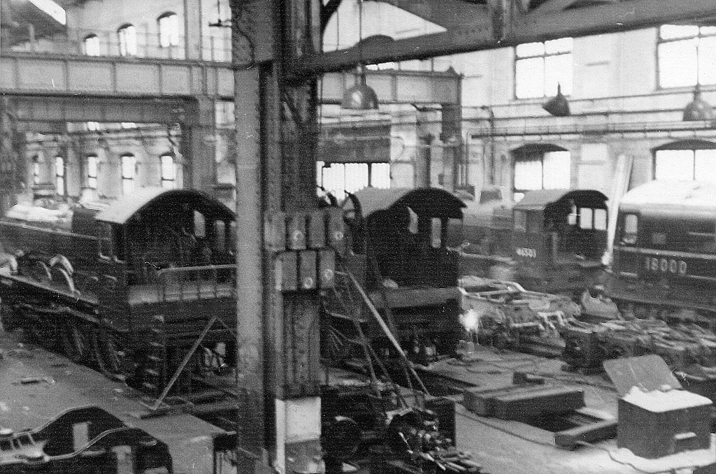 Inside 'A' Shop, Swindon Works, BR Western Region. On a Sunday no one at work, but an interesting selection of locomotives, left to right:- 'Castle' 4-6-0s Nos. 4075 'Cardiff Castle' and 5048 'Earl of Devon', LMS Ivatt Class 2 2-6-0 No. 46503, Gas-Turbine 0-6-6-0 No. 18000.